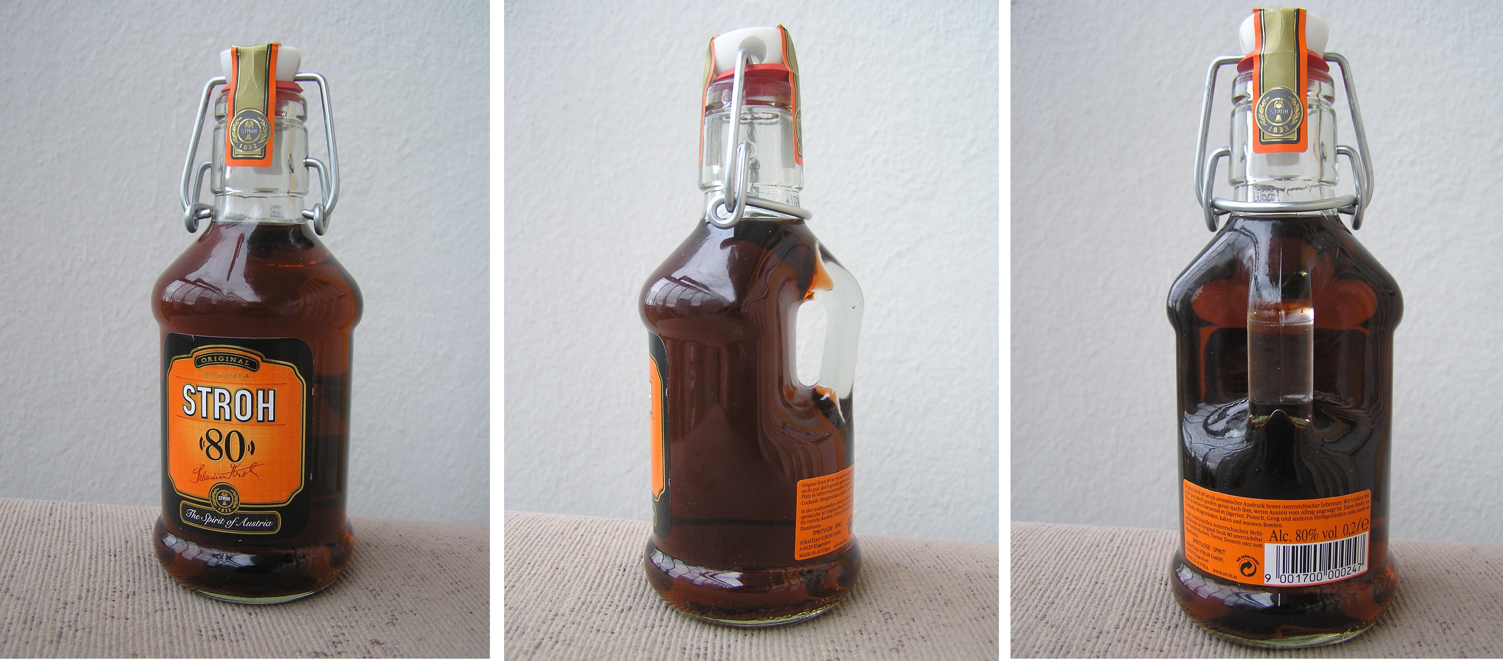 Stroh, spirit popular in Austria.